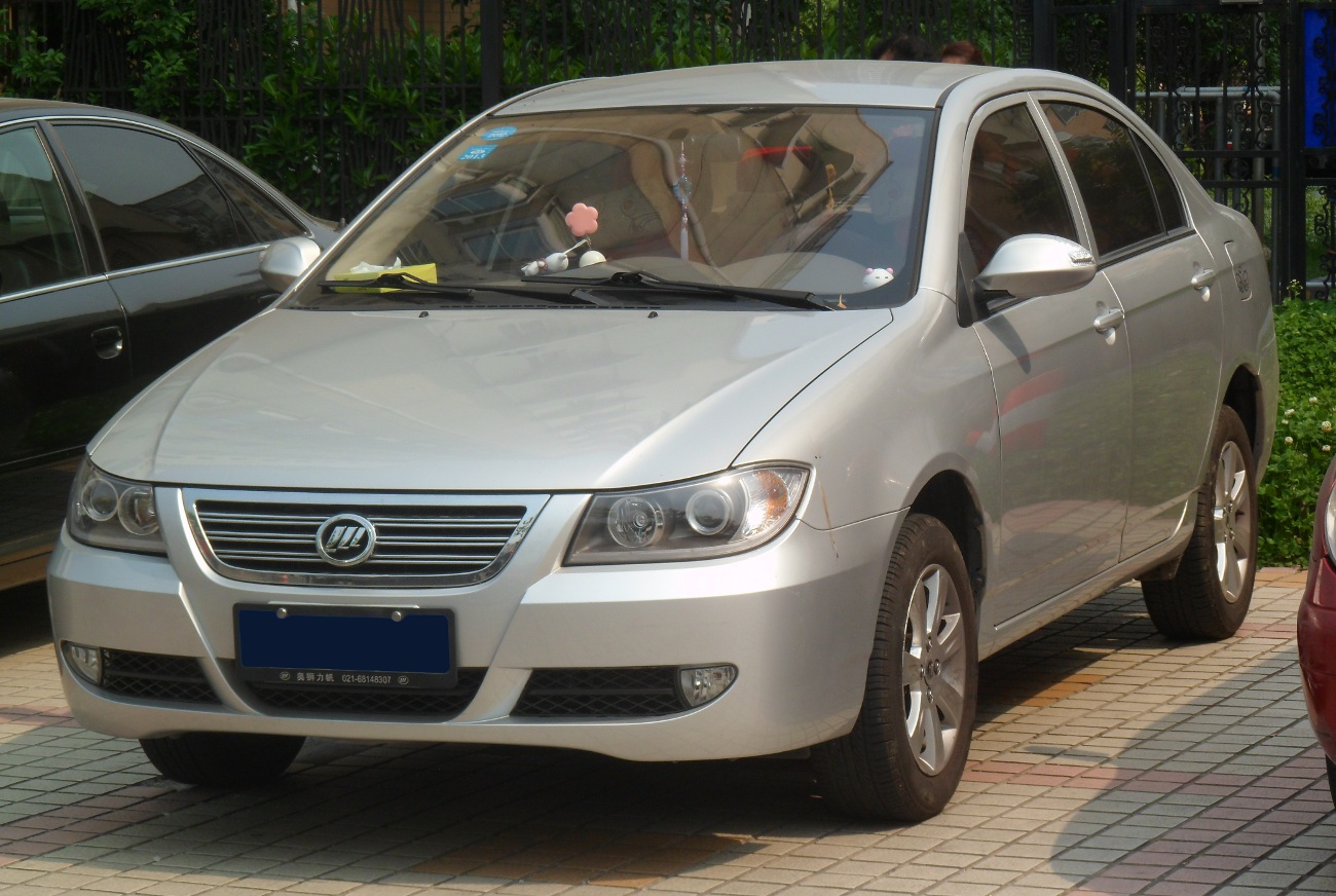 Lifan 620 photographed in Shanghai, China.